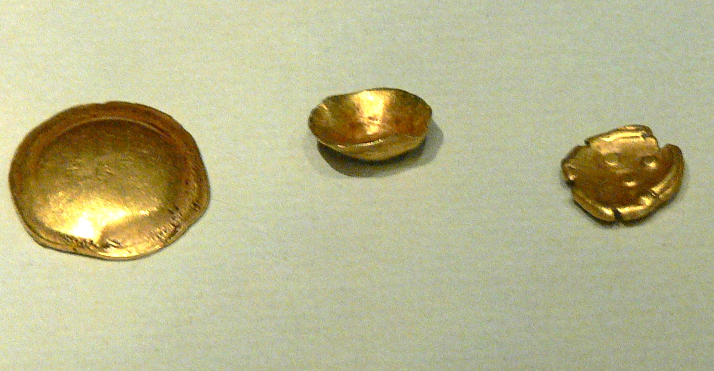 German Historical Museum ( Berlin ). Celtic golden coins.